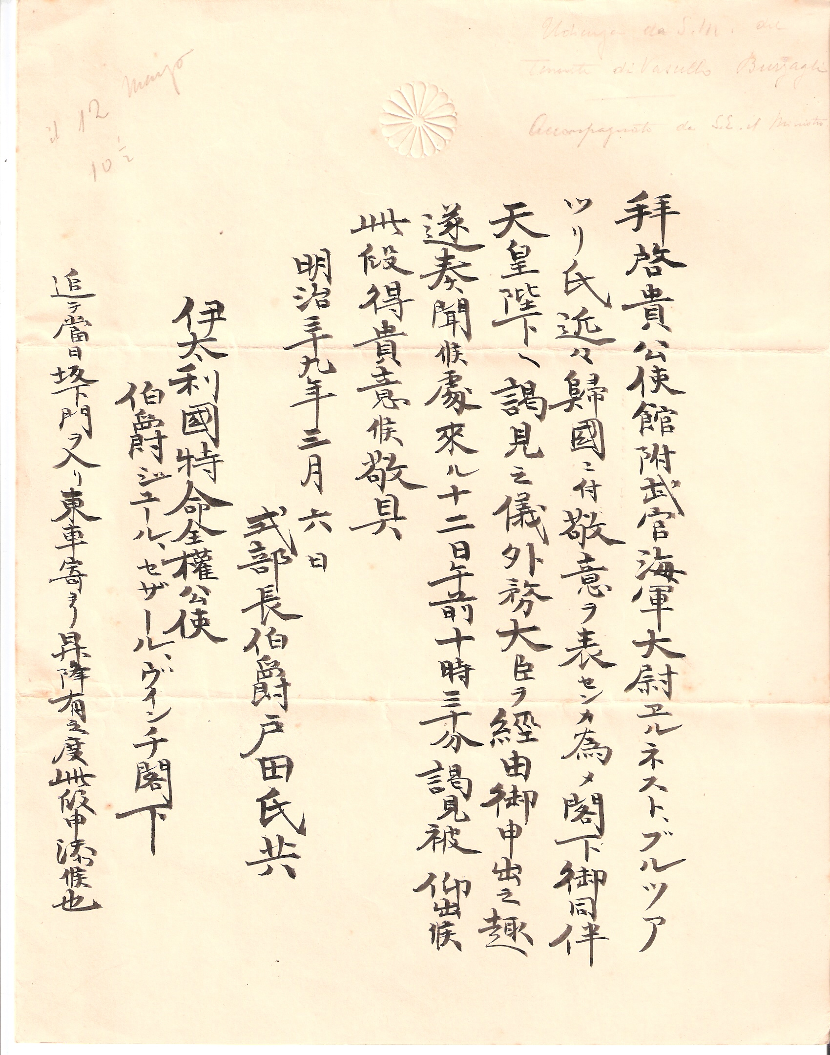 Personal invitation to a meeting with the emperor Meiji. The letter says: Respected "Major" Ernesto Burzagli, On occasion of your imminent return (to Italy), please come and give your greetings/respect to the Emperor, passing by the Foreign Minister, on the coming 12th day (i.e. of March) at 10.30am. Dated March 6th 1906 and signed by Ujitaka Toda At the end of the letter there are directions for him to follow